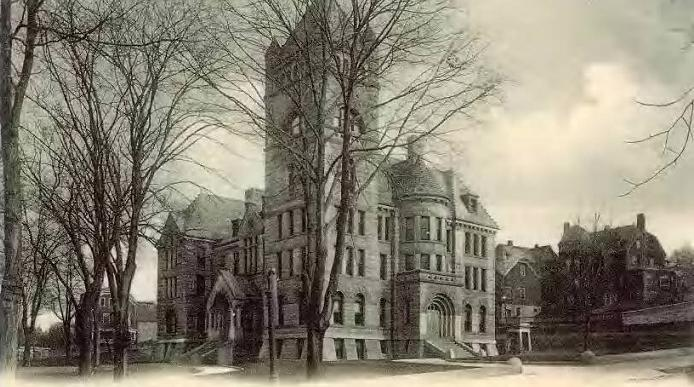 Court House in 1905, Fall River, MA; from an old postcard. The building is still in use, although it has an architecturally matching addition on the northern side of the building (this picture is from the southwest corner).